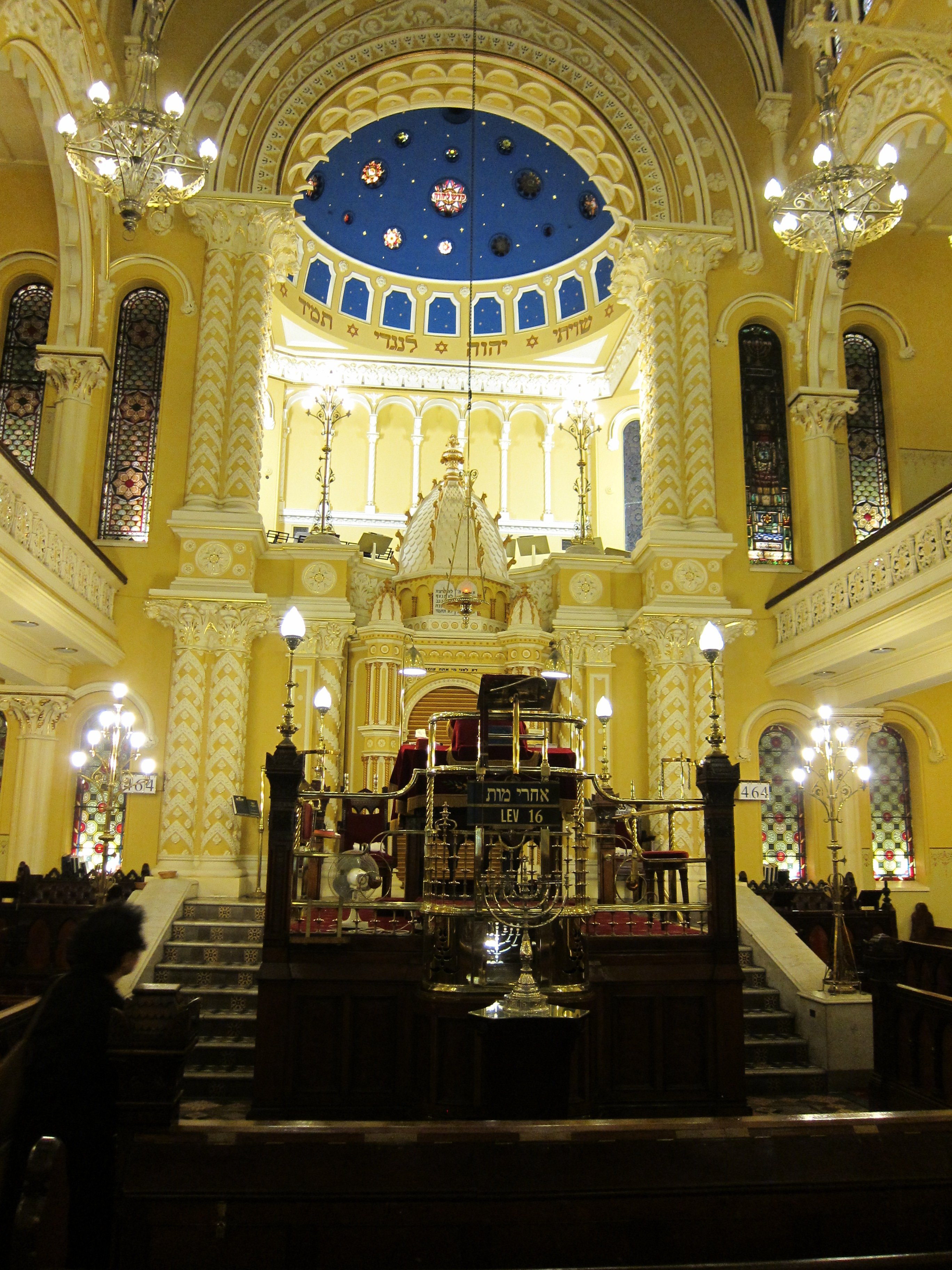 Bimah of The Great Synagogue in Sydney, Australia